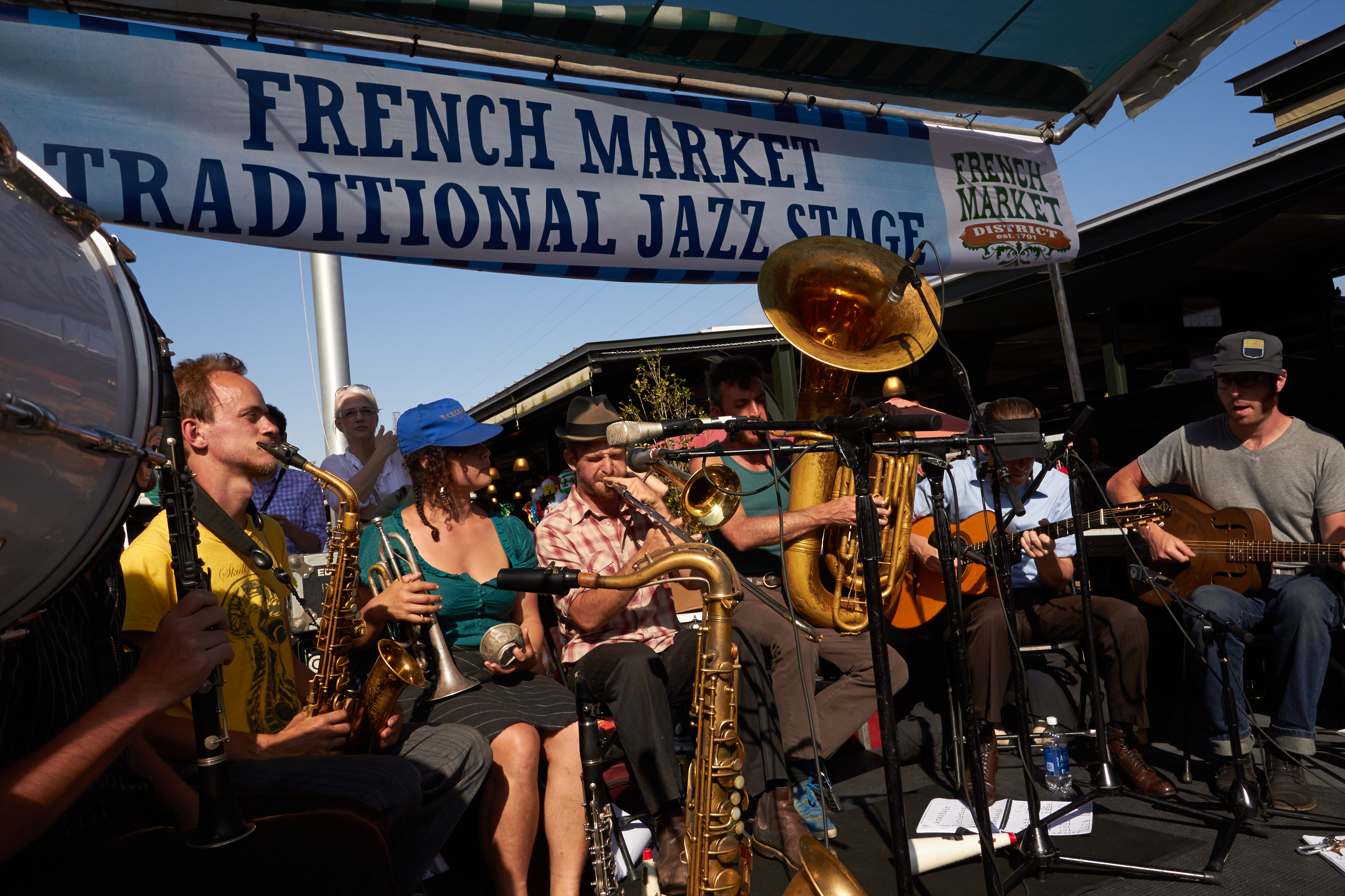 "Tuba Skinny" band at French Quarter Festival, New Orleans.